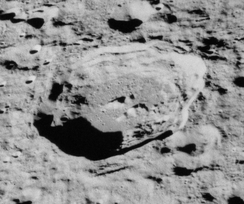 Oblique view of Cantor crater, on the far side of the moon